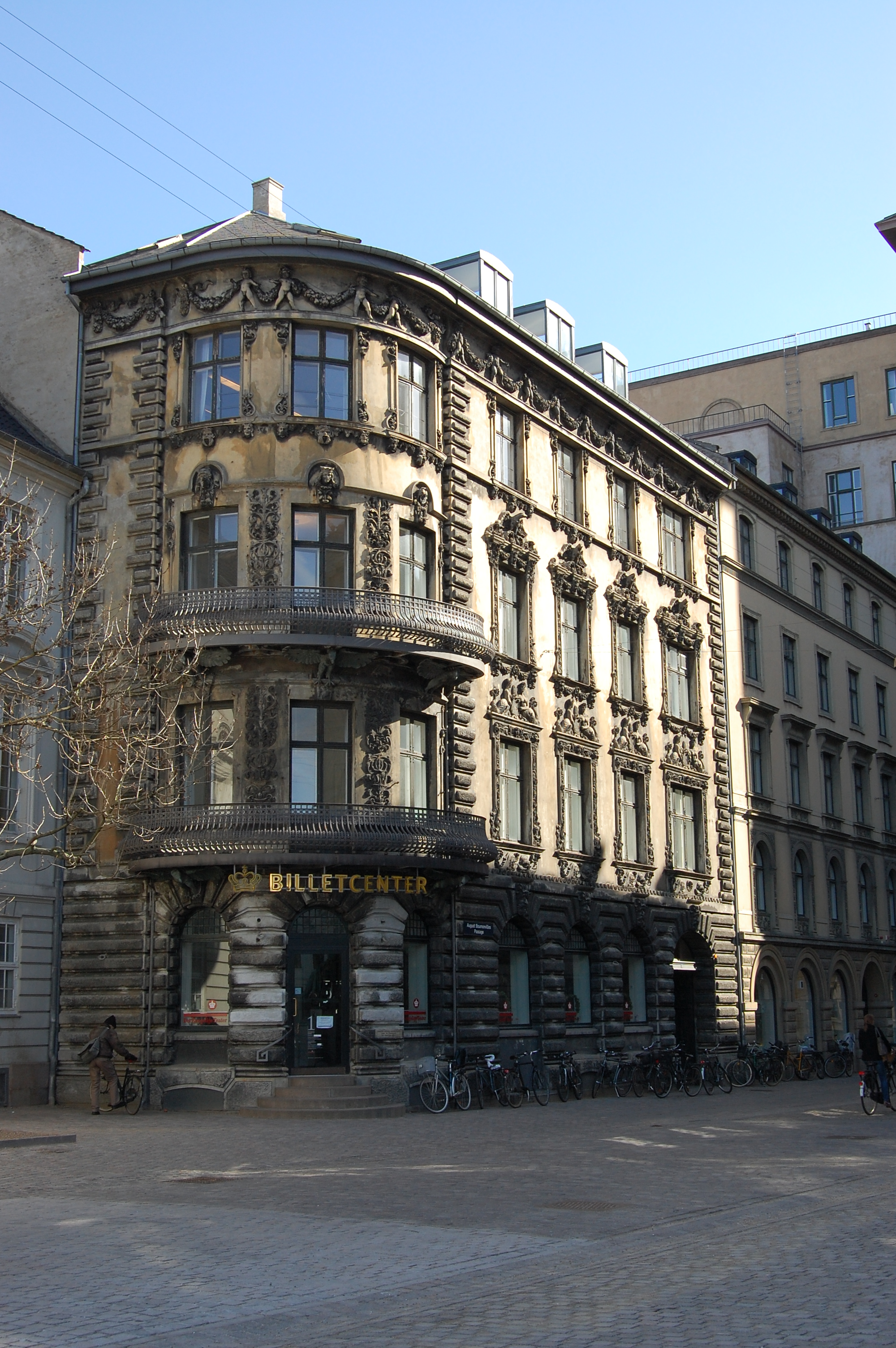 The Stærekassen extension to the Royal Danish Theatre in Copenhagen, Denmark